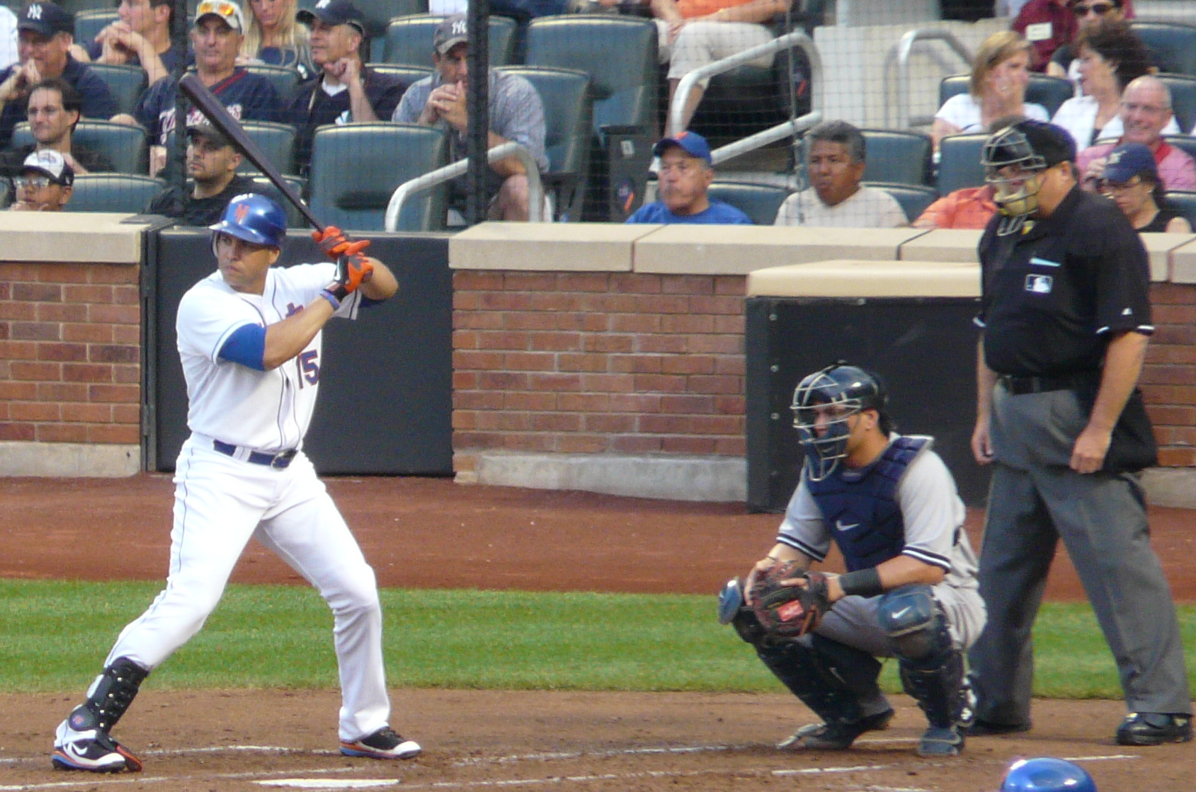 New York Mets outfielder Carlos Beltran bats and Russell Martin catches for the New York Yankees during a 2011 game at Citi Field. Daniel Murphy of the Mets is on deck. Jerry Layne is the home plate umpire.